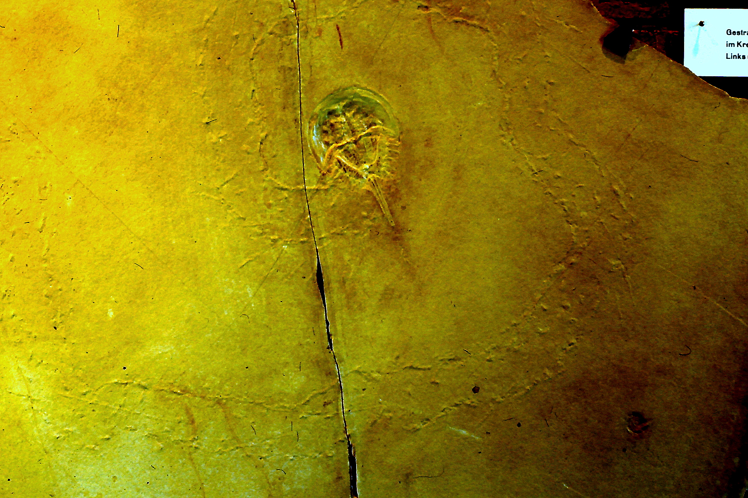 Mesolimulus walchi and trackway. Maxberg Museum (Museum beim Solenhofer Aktien-Verein), Mörnsheim, Germany